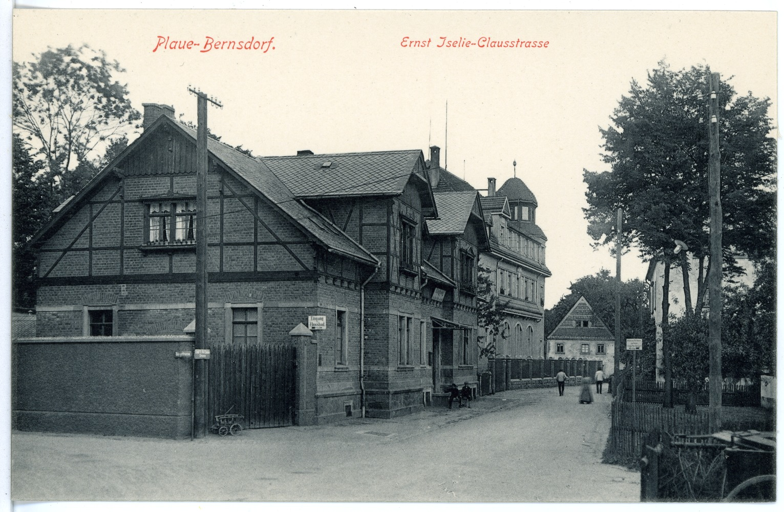 This postcard is from publisher Brück & Sohn in Meißen ( This postcard has a unique number 15994 and is available in a higher resolution at the publisher. This images was uploaded in a cooperation project between Wikipedians and the publisher.